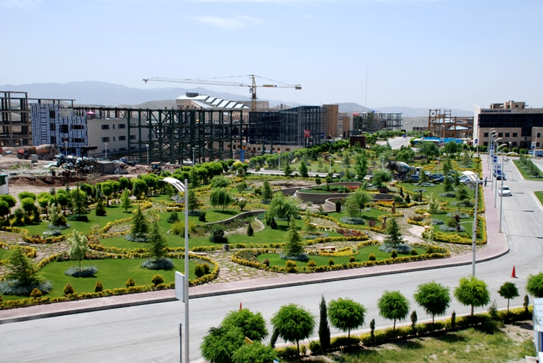 View of Pardis Technology Park